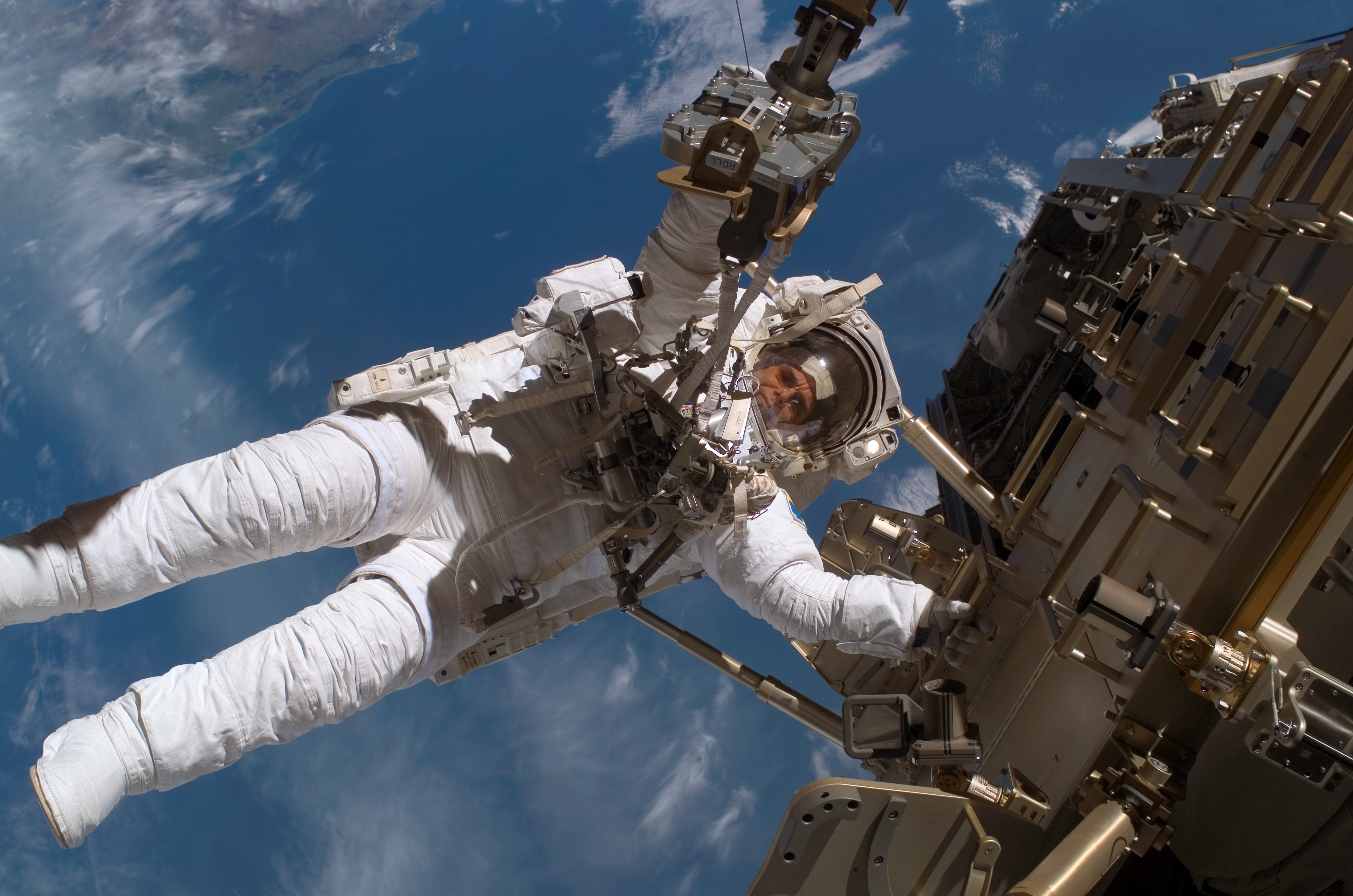 STS-116 Shuttle Mission Imagery European Space Agency (ESA) astronaut Christer Fuglesang, STS-116 mission specialist, participates in the mission's second of three planned sessions of extravehicular activity (EVA) as construction resumes on the International Space Station. Astronaut Robert L. Curbeam, Jr. (out of frame), mission specialist, also participated in the spacewalk.